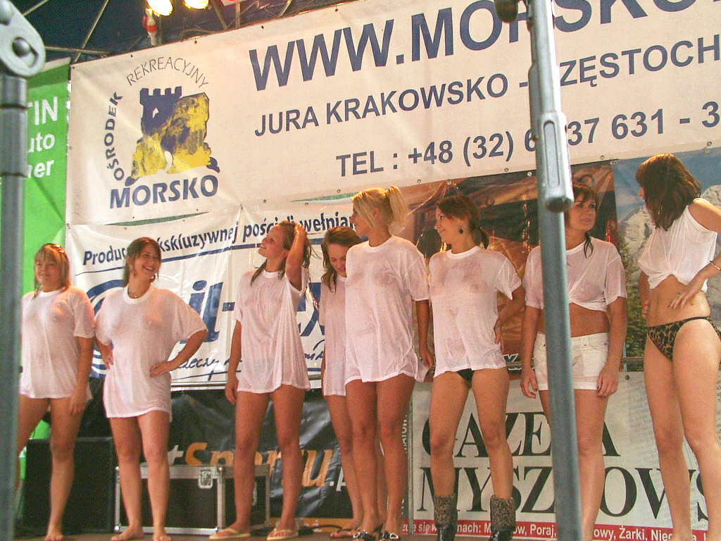 Wet T-shirt Contest in Morsko (Poland), on the stage.